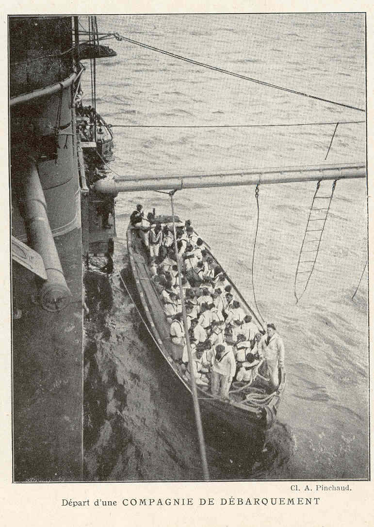 Subject: France. Marine--Maneuvers, Landing operations Tag: Vessels, People